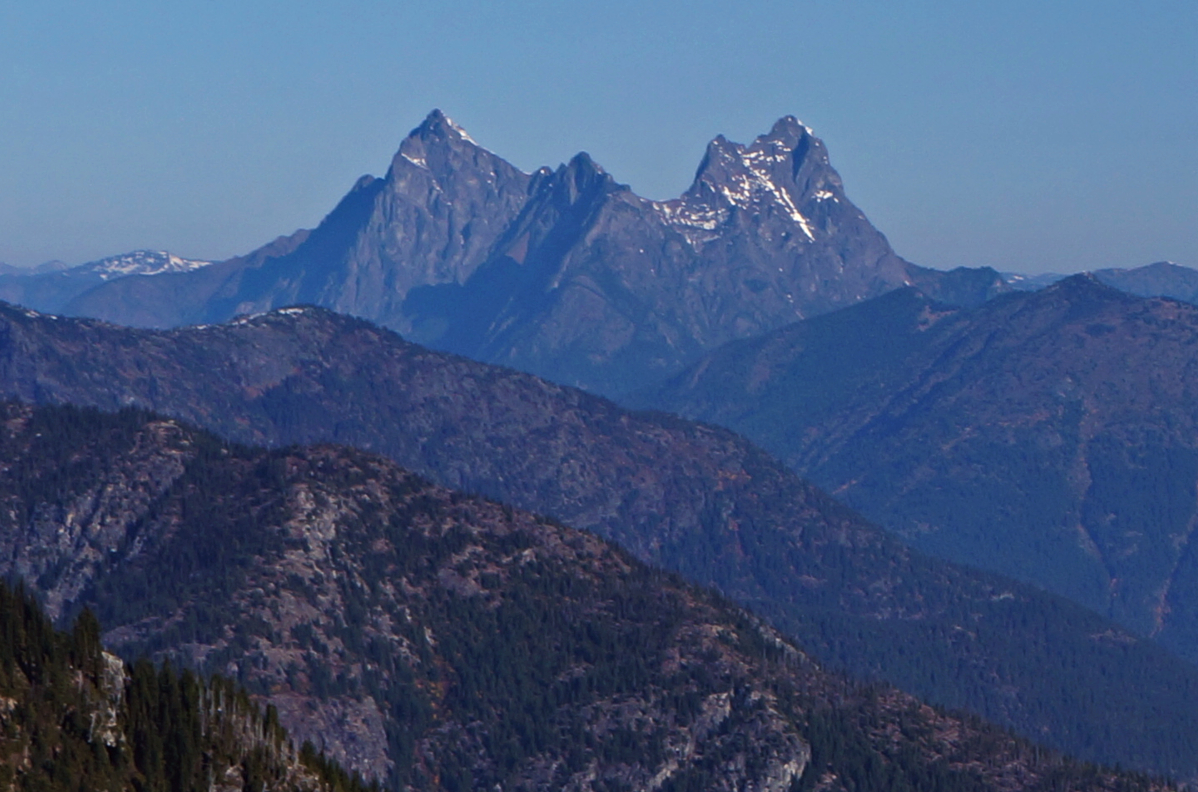 Hozomeen Mountain seen from Sourdough Mountain. North Cascades of WA